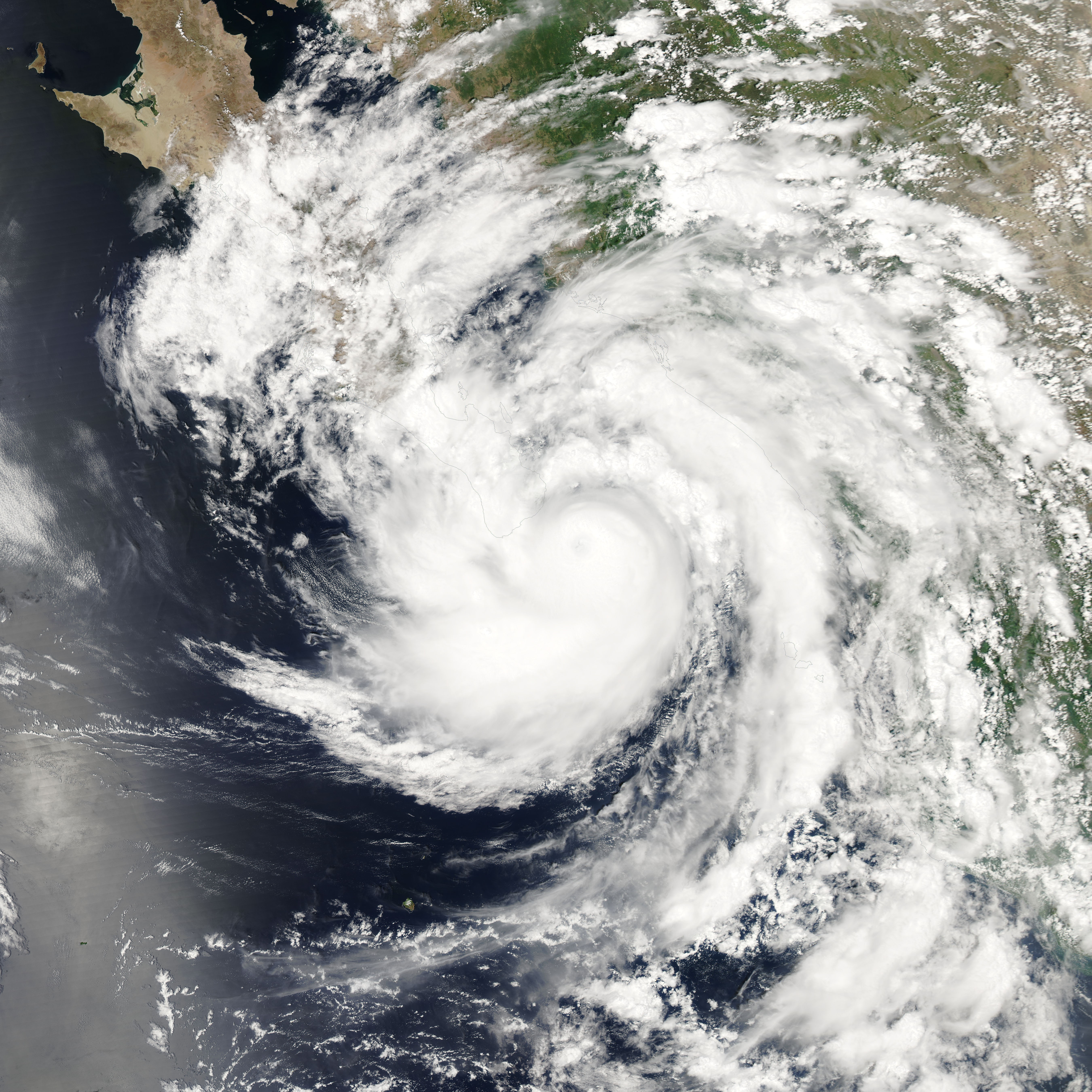 This image shows Hurricane John off the coast of Southern Baja California, just four hours before it made its first landfall in Cabo del Este. It was captured by the MODIS instrument on NASA's Aqua satellite on September 1 at 2055 UTC. John's maximum sustained winds were observed at 110 mph and its minimum central pressure at 958 mb.